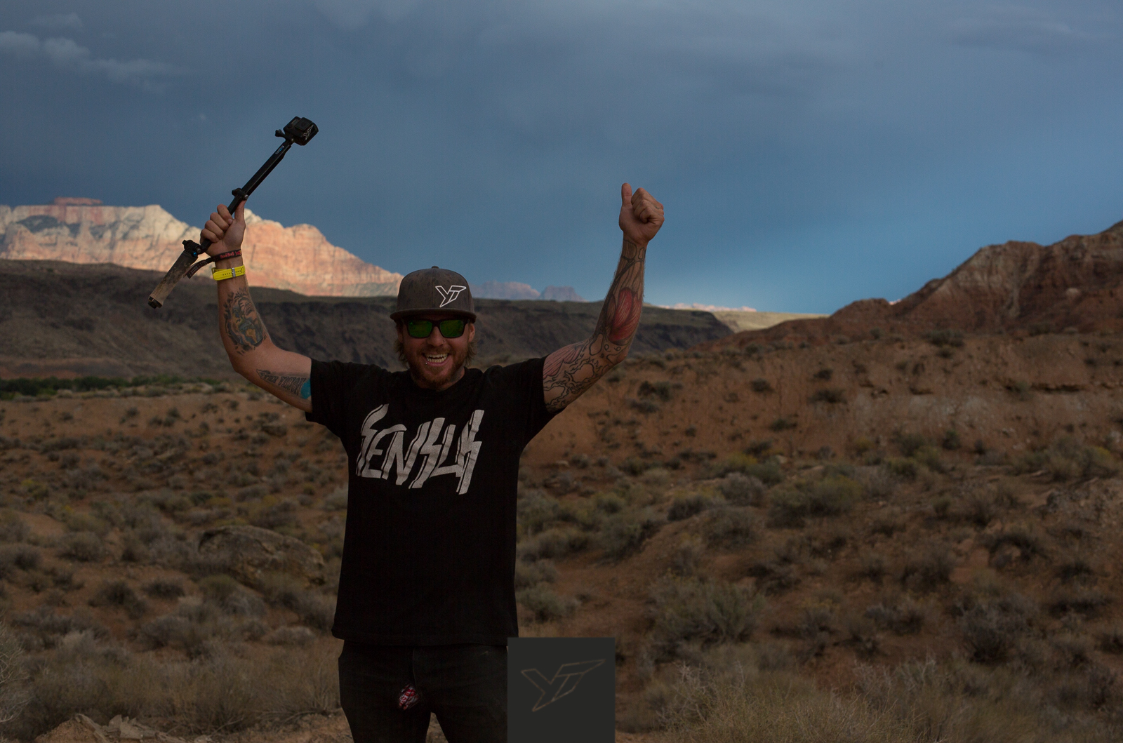 Ricky Crompton ,Smiles for Miles whilst at RedBull Rampage 2015. Capturing the Good Times always on his GoPro.